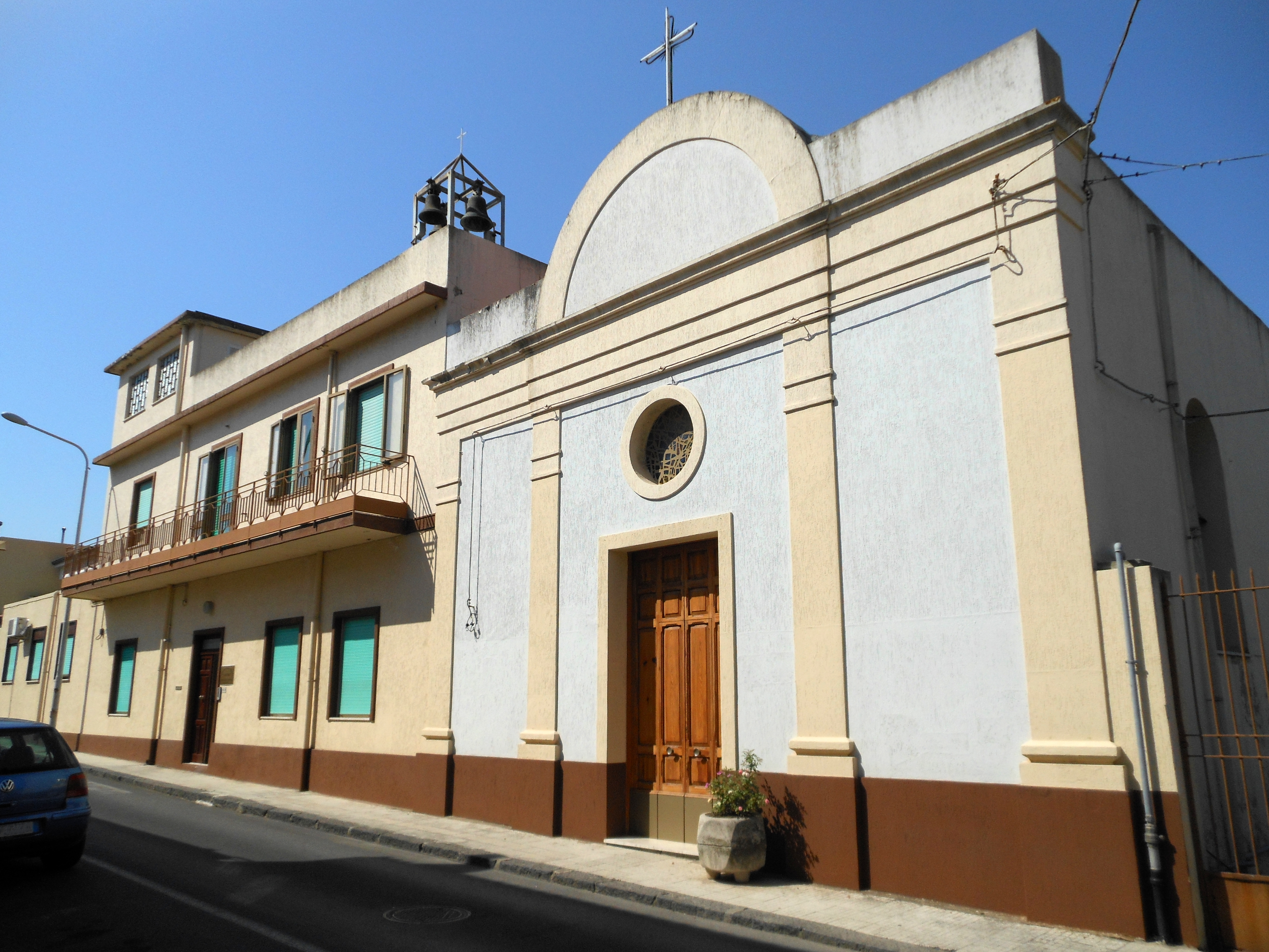 Church of Holy Cross and former "Figlie del Divino Zelo" Institute, Torregrotta, Italy.